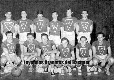 Basketball team of Club Atlético Lanús before playing a game at Luna Park of Buenos Aires.